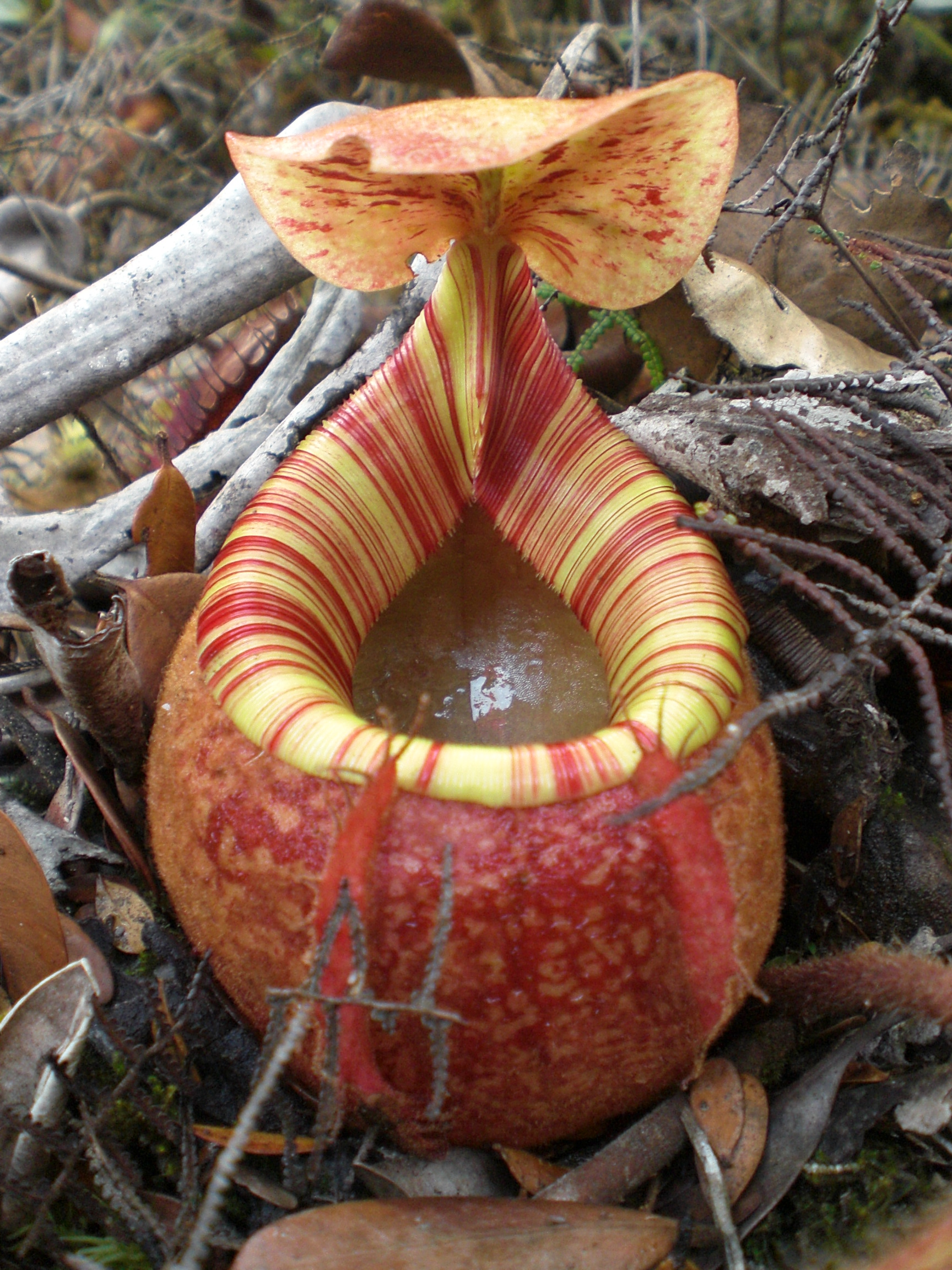 Nepenthes peltata — Hamiguitan Pitcher plant. Found on and endemic to Mount Hamiguitan, San Isidro — in Davao Oriental Province of the Mindanao islands region of the southern Philippines.